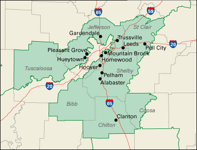 Alabama's 6th congressional district